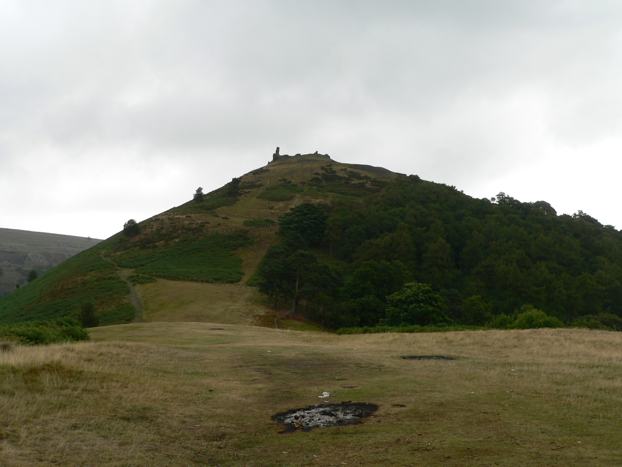 Castell Dinas Bran, near Llangollen in north Wales, viewed from the west on 14 August 2005.